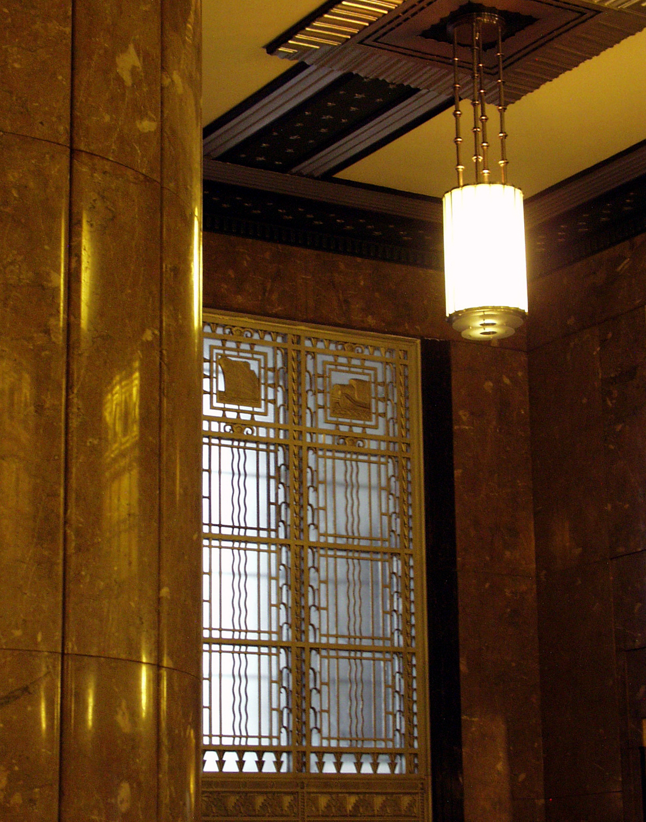 Former Main Post Office built in the Art Deco Style. Now an Art Museum.